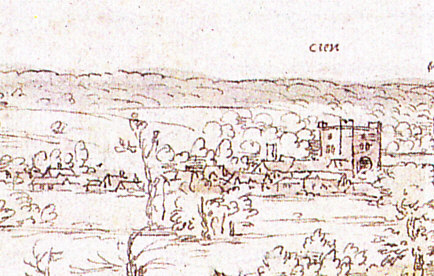 Sheen Priory, detail from an engraving by Anton van den Wyngaerde